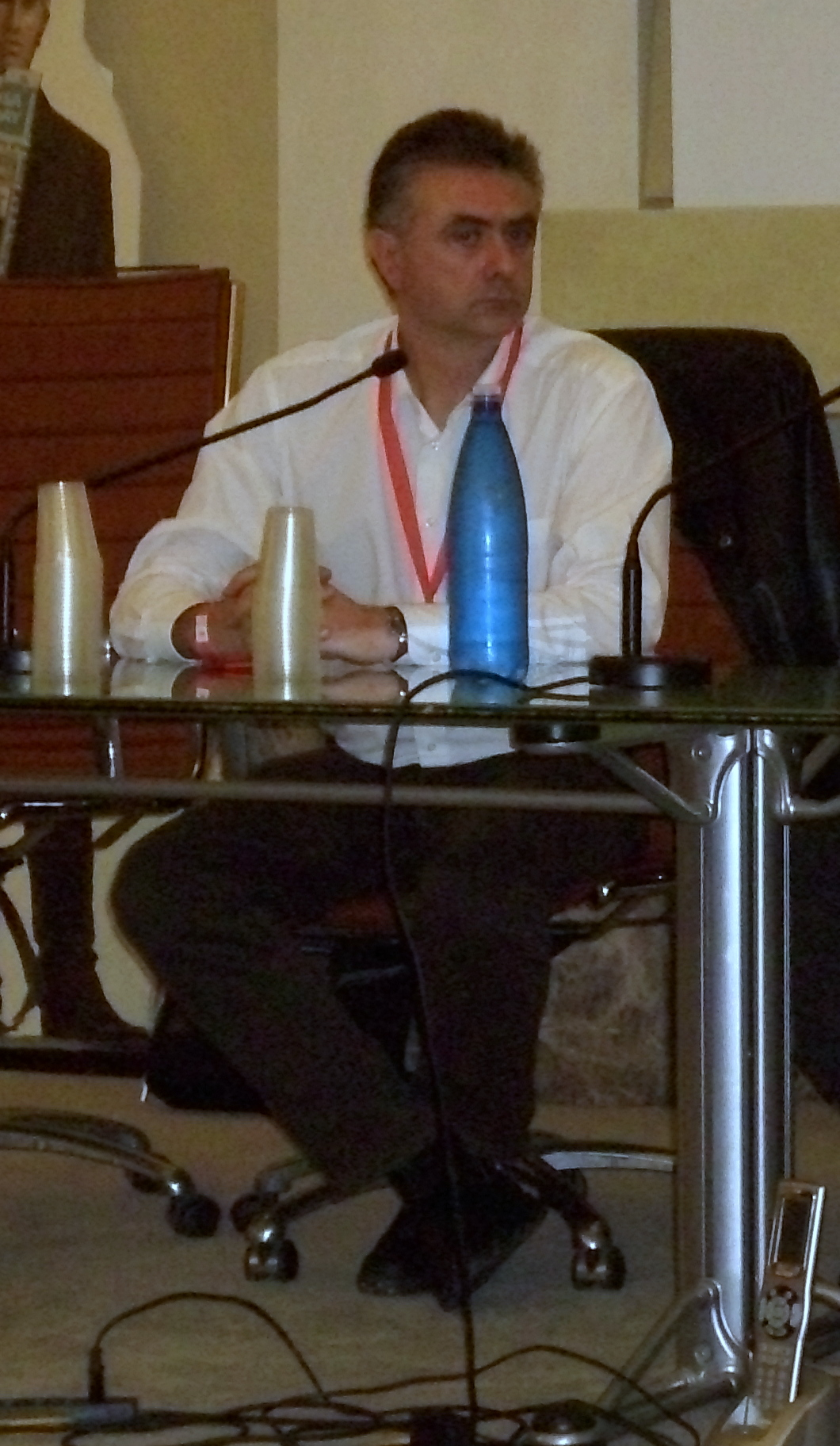 Riccardo Secchi (italian television screenwriter and comics writer) at Lucca Comics 2008